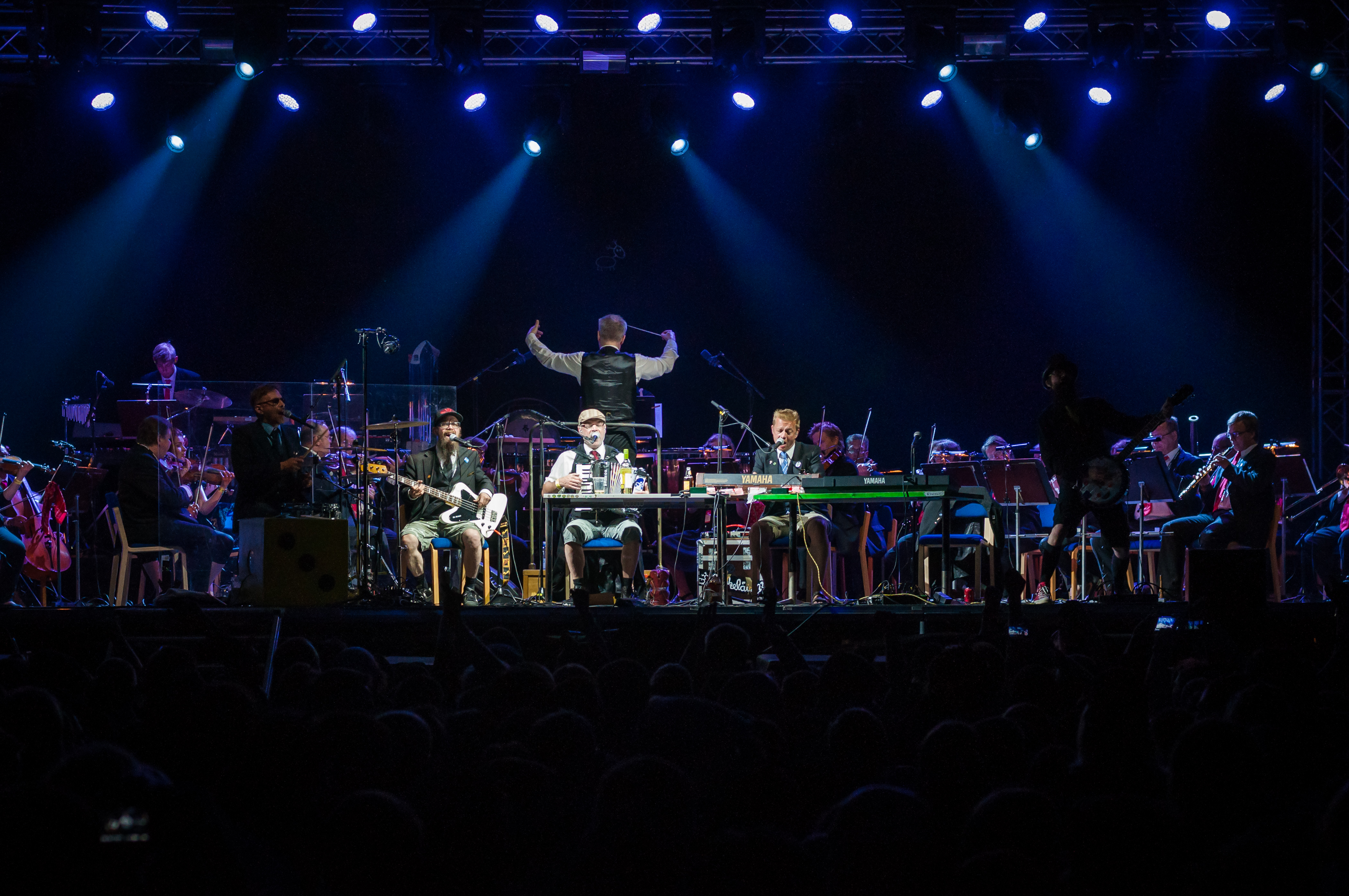 Finnish humppa band Eläkeläiset performing with the Kuopio Symphony Orchestra at the 2014 Ilosaarirock festival in Joensuu, Finland.